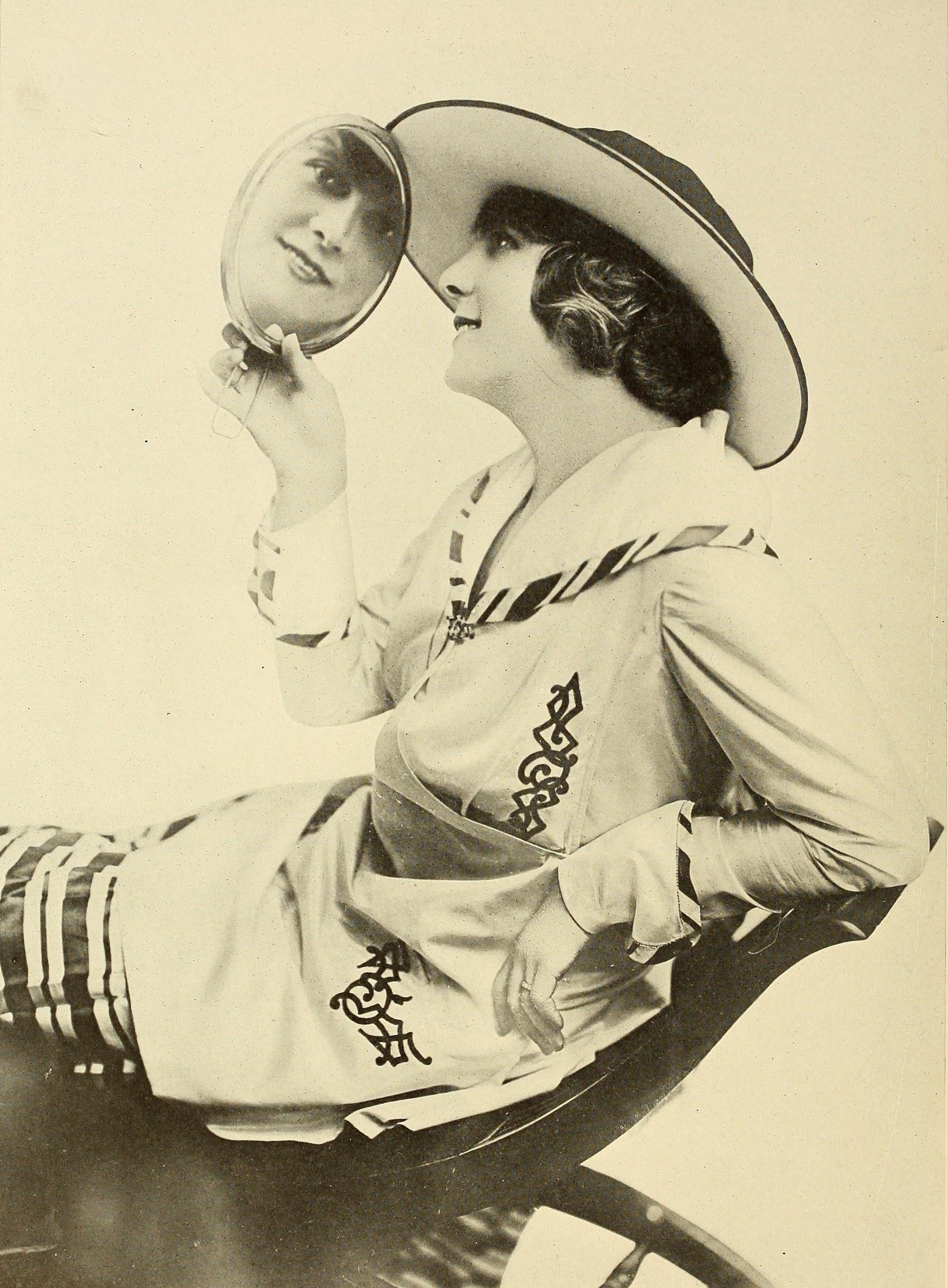 Photograph of Kathlyn Williams. The Photo-Play Journal, February 1917